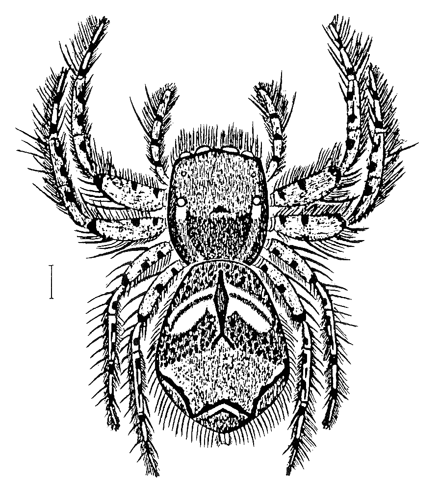 Servaea vestita female from L. Koch, 1879. Specimen from Australia.